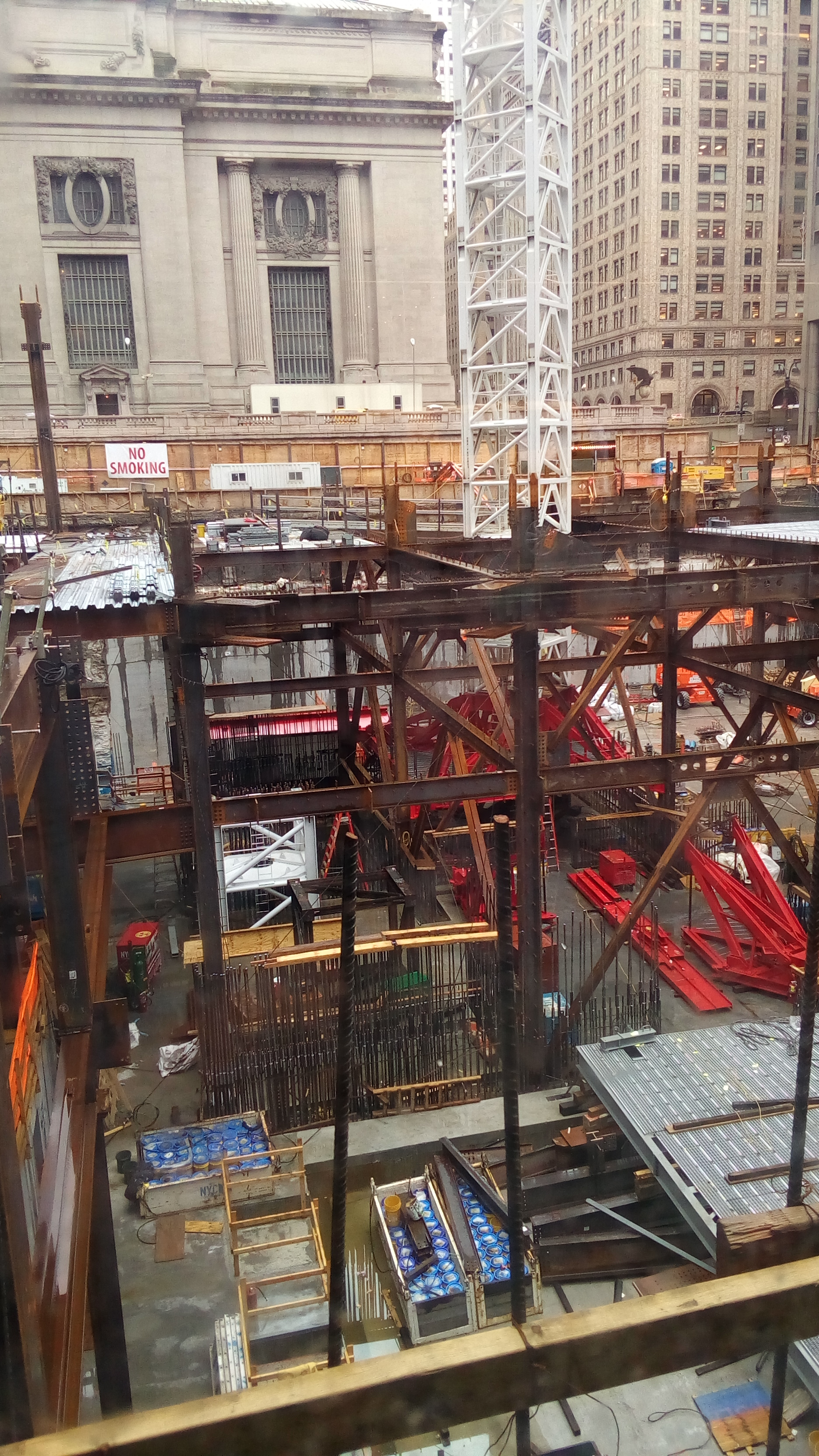 Construction work at the foundation of One Vanderbilt seen from the Madison Avenue